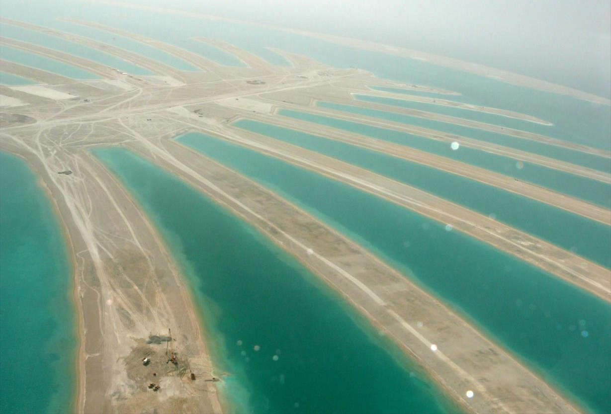 This is an aerial view of the Palm Jebel Ali, located in Dubai, United Arab Emirates, on 8 May 2008. This photo was taken from a helicopter ride courtesy of Nakheel.